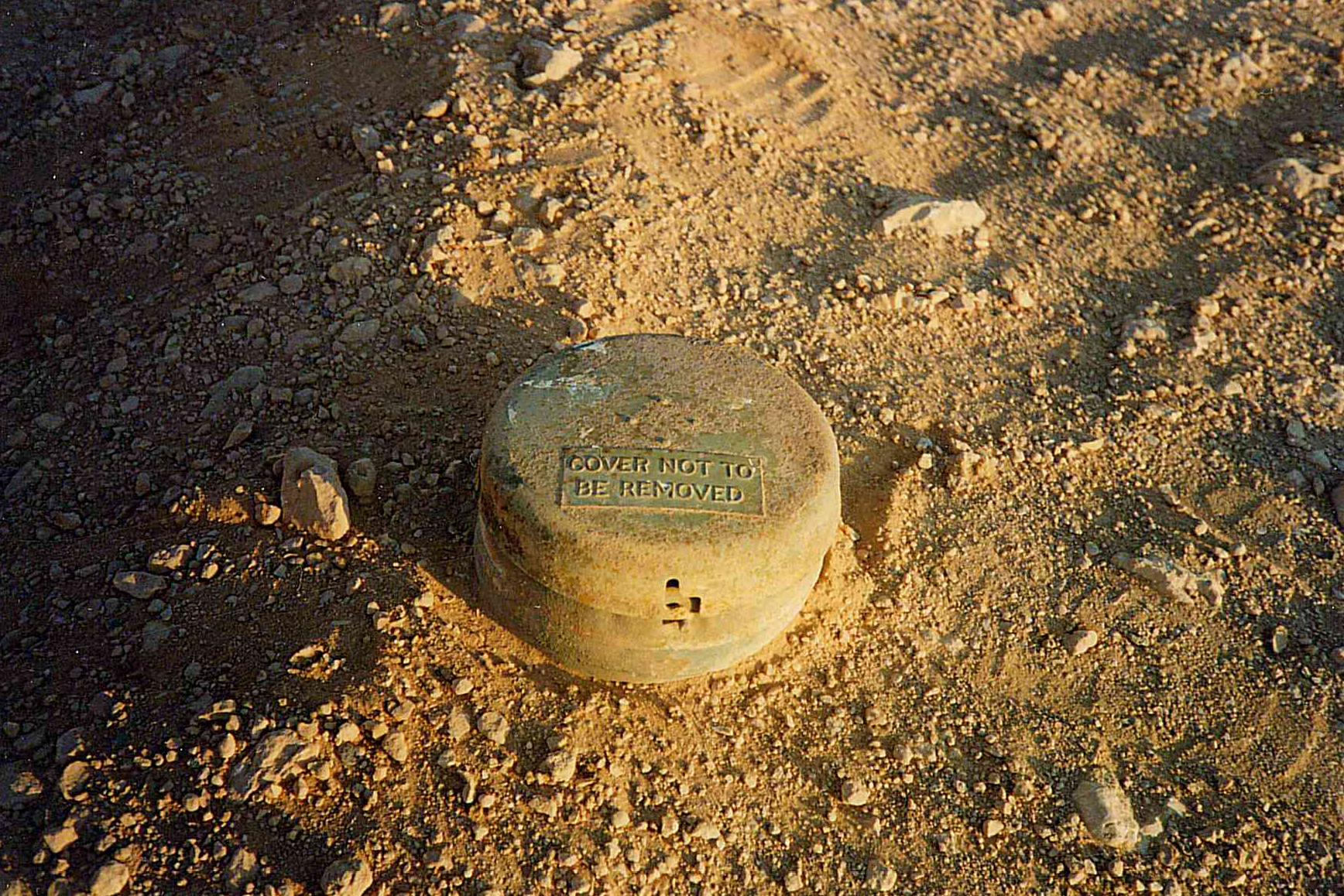 A british land mine secured 1990 near Bir Hacheim